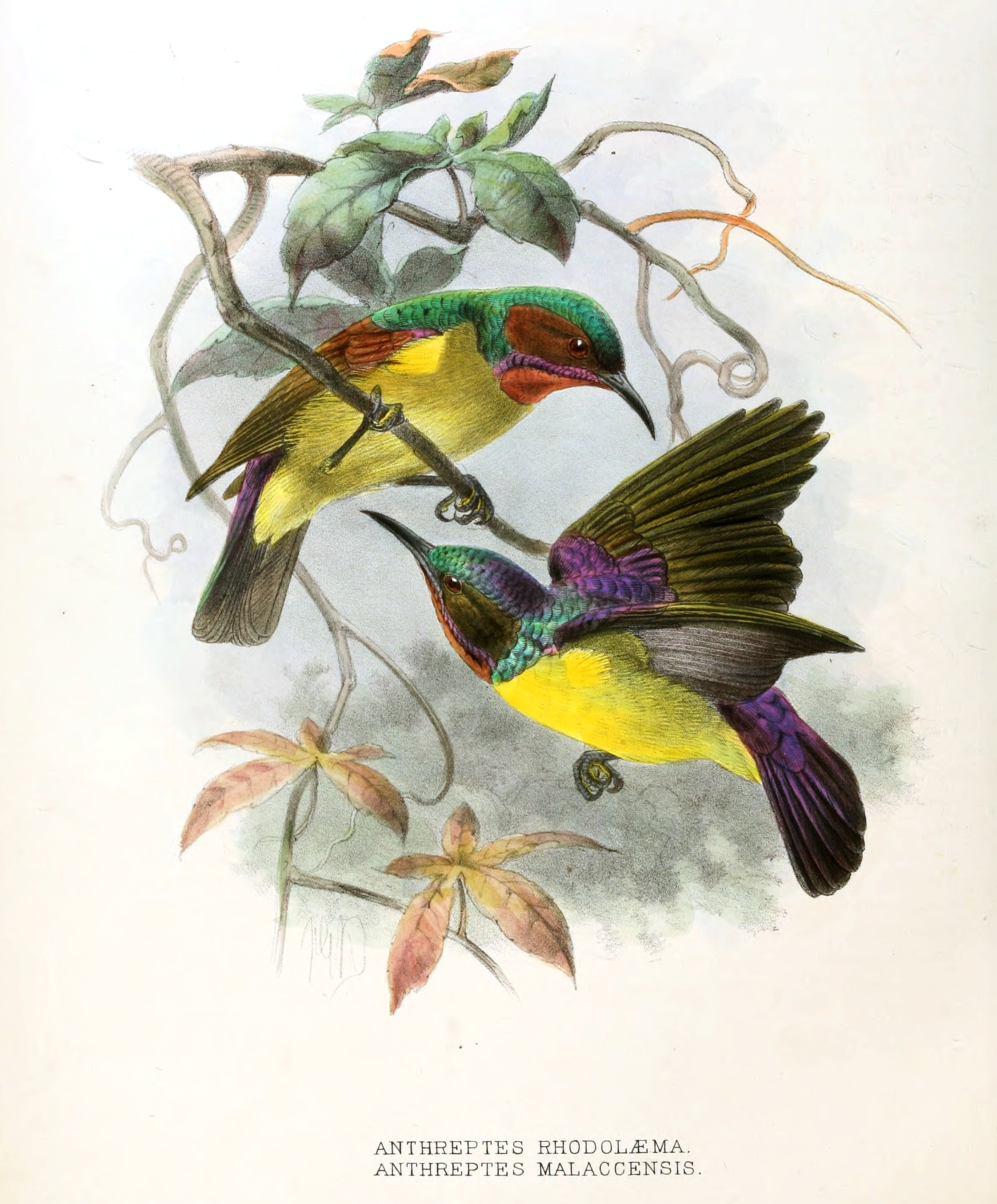 Anthreptes rhodolaemus, Anthreptes malacensis